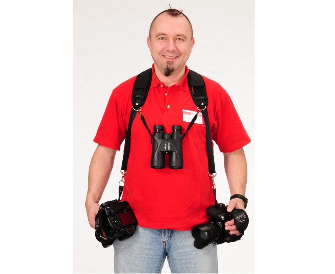 Fotografie z archivu Dalibor Johánek OEHLING CZ s.r.o. Personality rights warningAlthough this work is freely licensed or in the public domain, the person(s) shown may have rights that legally restrict certain re-uses unless those depicted consent to such uses. In these cases, a model release or other evidence of consent could protect you from infringement claims.